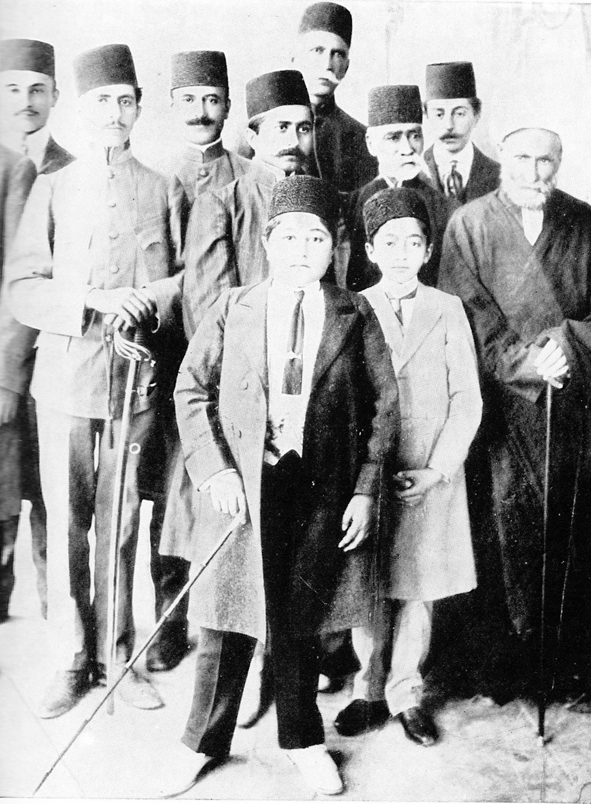 Ahmad Shah and his suite, 1911